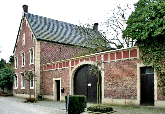 Cultural heritage monument No. 29 in Selfkant